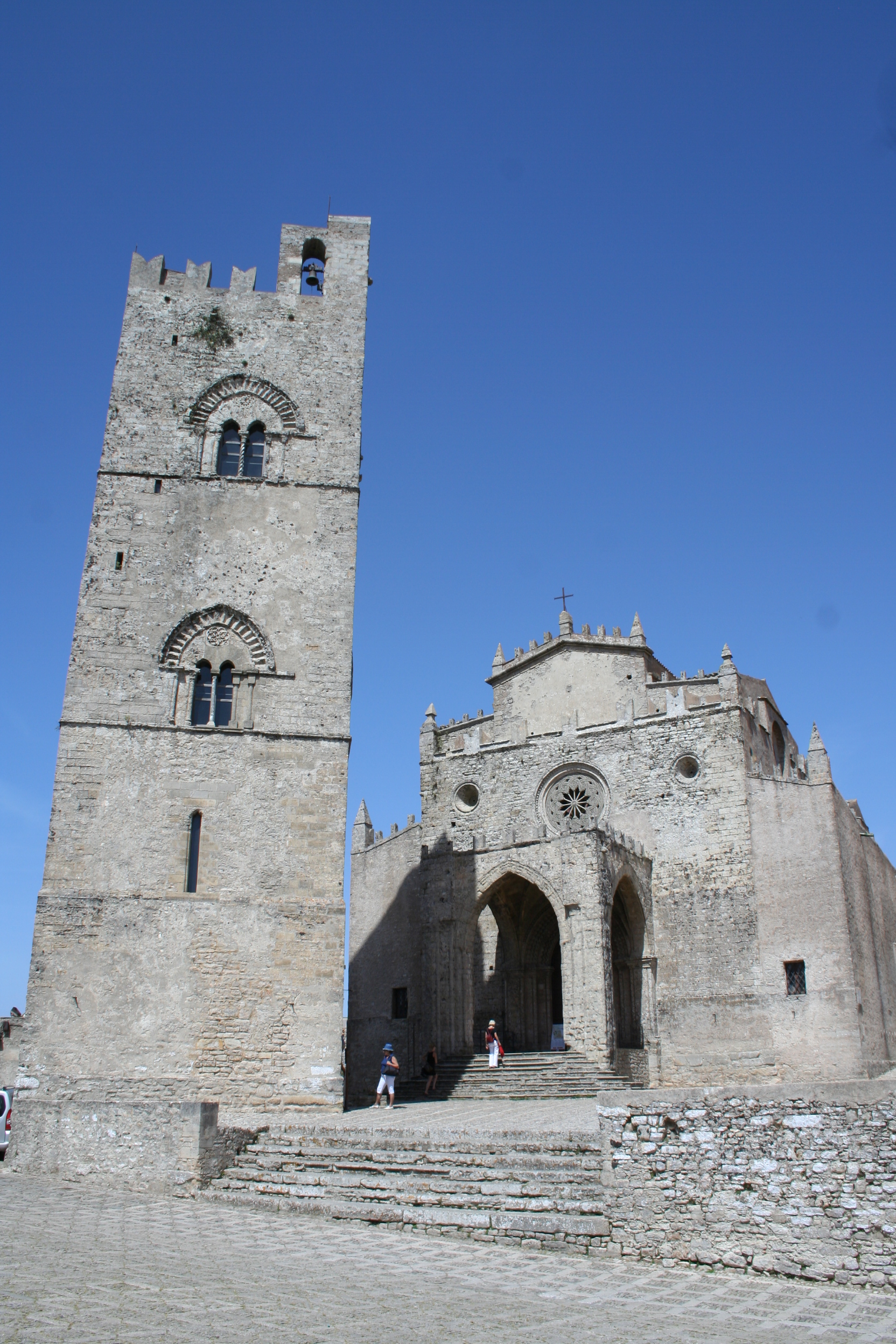 Chiesa Marde Erice Sicily.